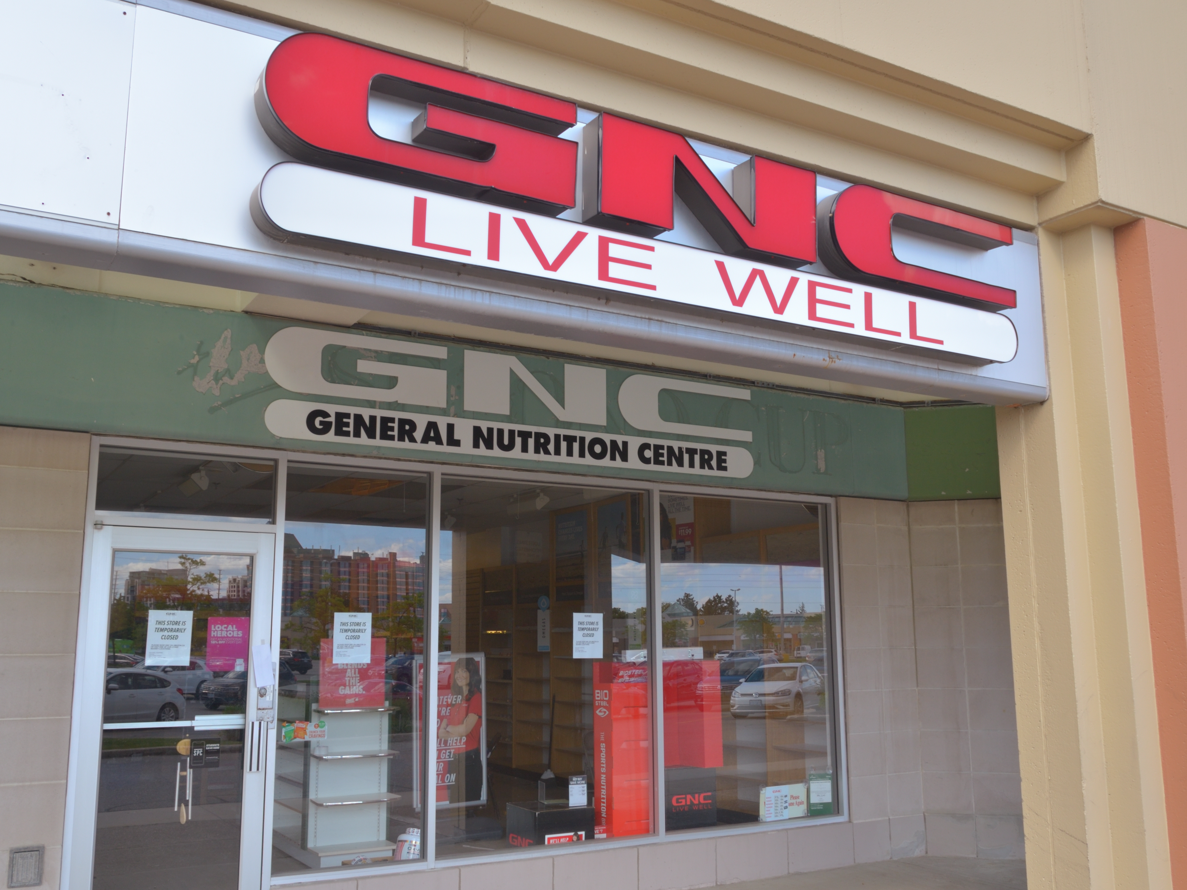 GNC at Markham Town Square